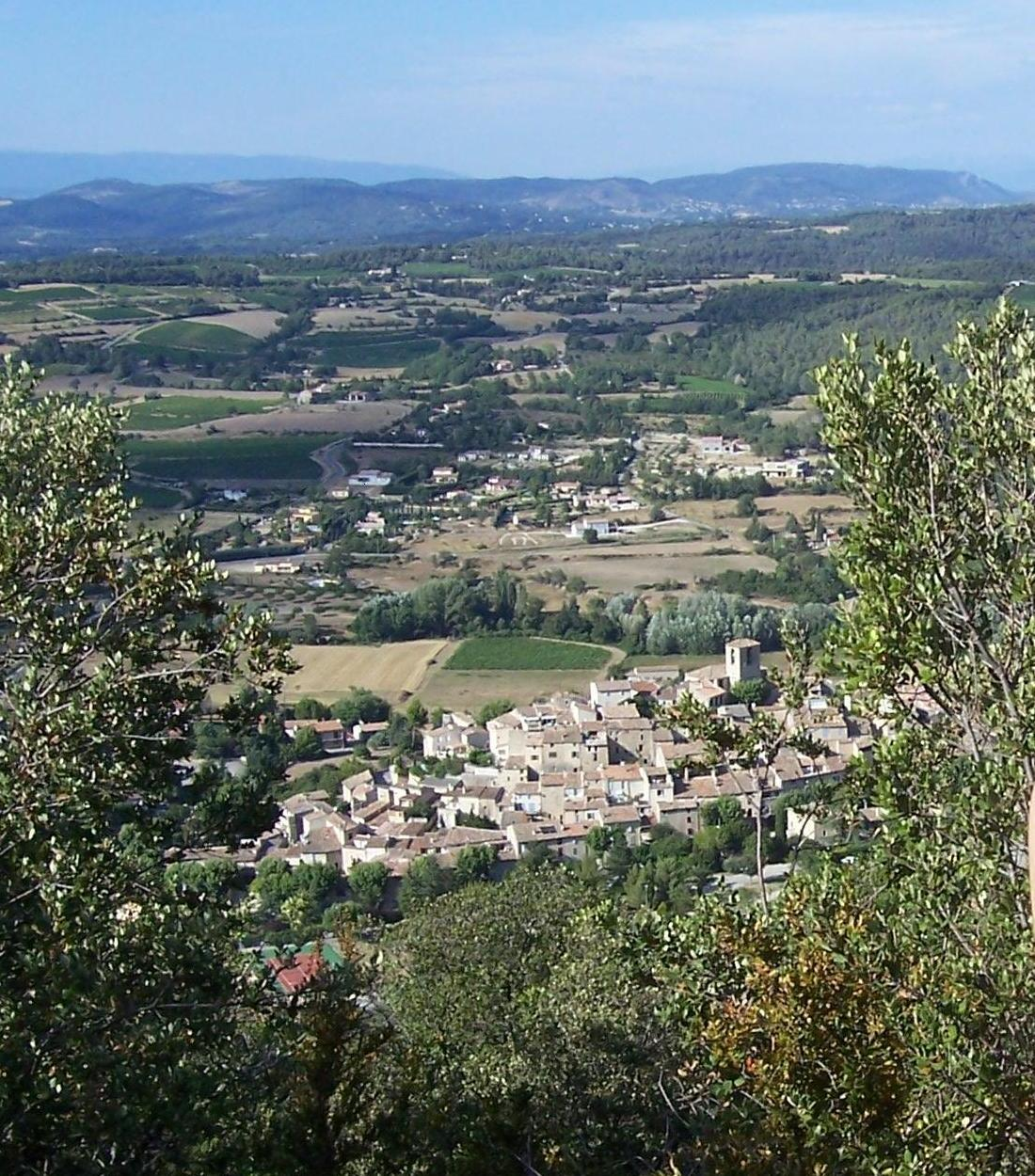 The village of Beaumont-de-Pertuis